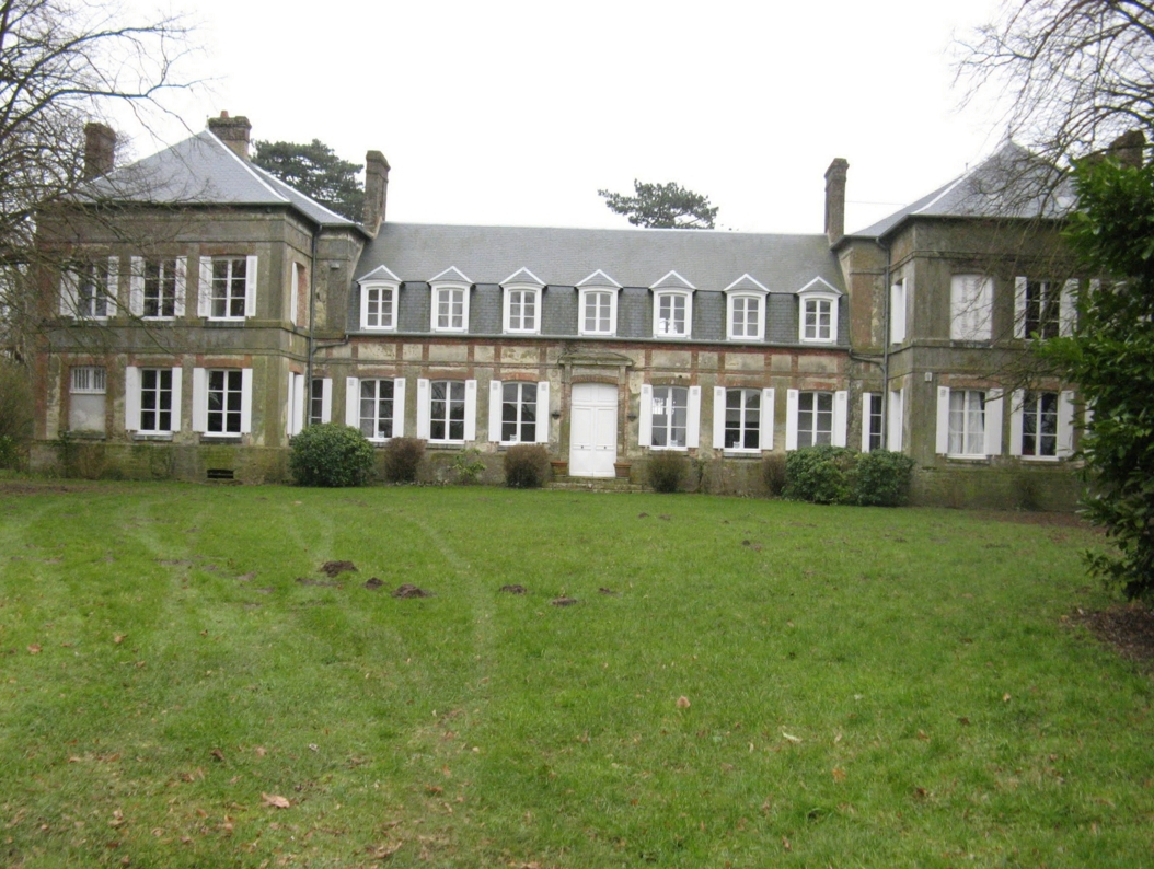 Auchy castle.